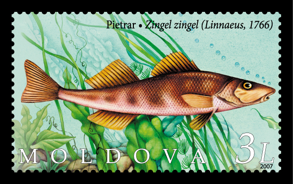 Stamp of Moldova